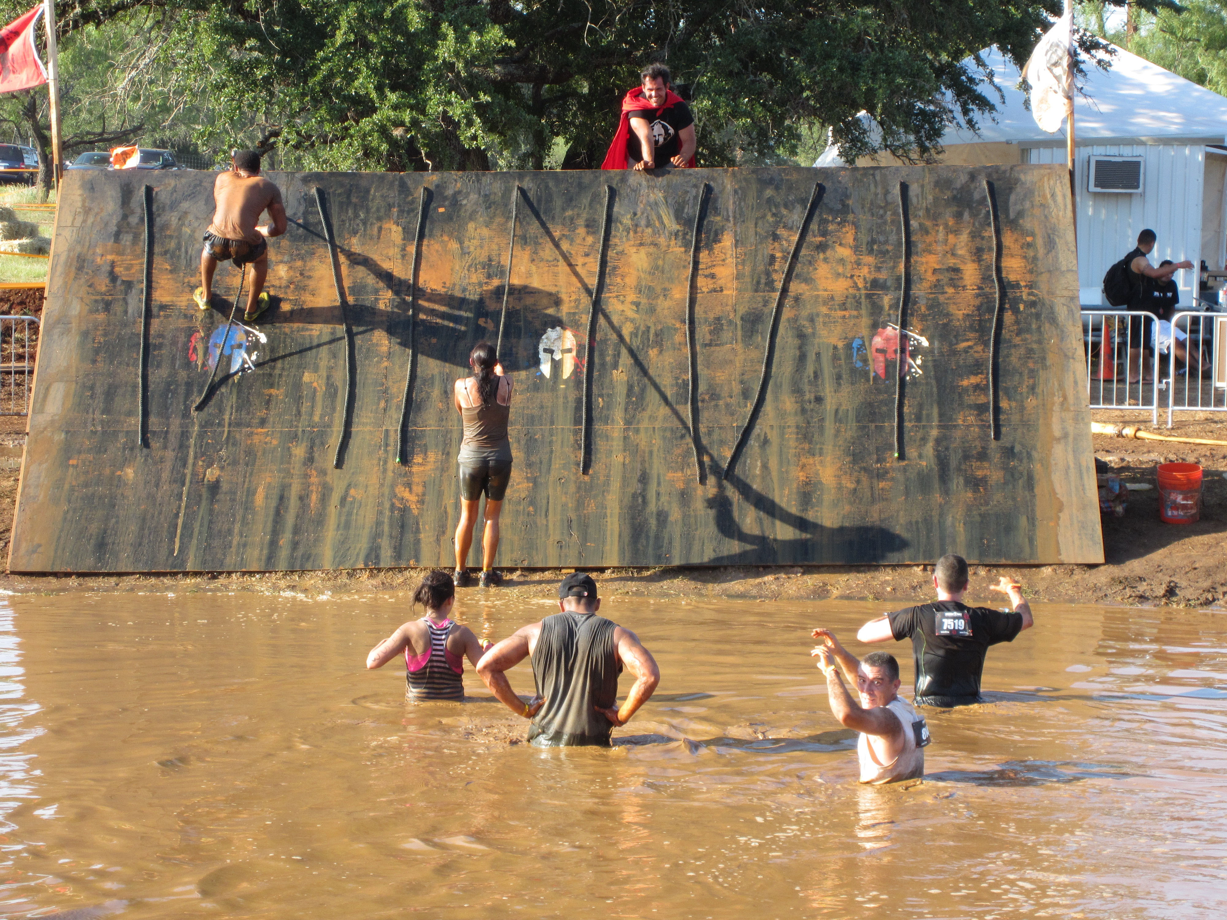 Spartan Race competitors leave one obstacle course to take a walk through muddy water to climb over a wall, May 19, 2012, in Burnet, Texas. The first mile was straight running up hill and rocky pavement.